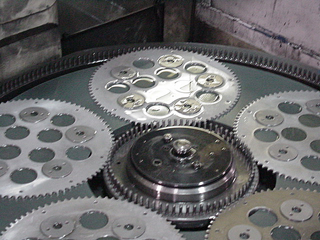 Photo of a flat honing machine. Its purpose is to machine parts to a precise thickness and improve their flatness. In the photo, each of the five sprocketed carriers are loaded with five disk shaped parts. The parts and carriers are sitting atop a greyish-green surface that is the lower abrasive surface. The upper abrasive surface is not pictured, but it is the same as the lower. In operation, the both surfaces are pressed together while the parts and carriers are sandwiched in between. The gap between is carefully controlled since it determines the thickness of the machined parts. The abrasive surfaces rotate in opposite directions to create a shear machining force. At the same time, the inner ring of pins also rotates and causes the carriers to rotate like a spirograph. The combination of these motions greatly improves the dimensional quality of the finished parts.